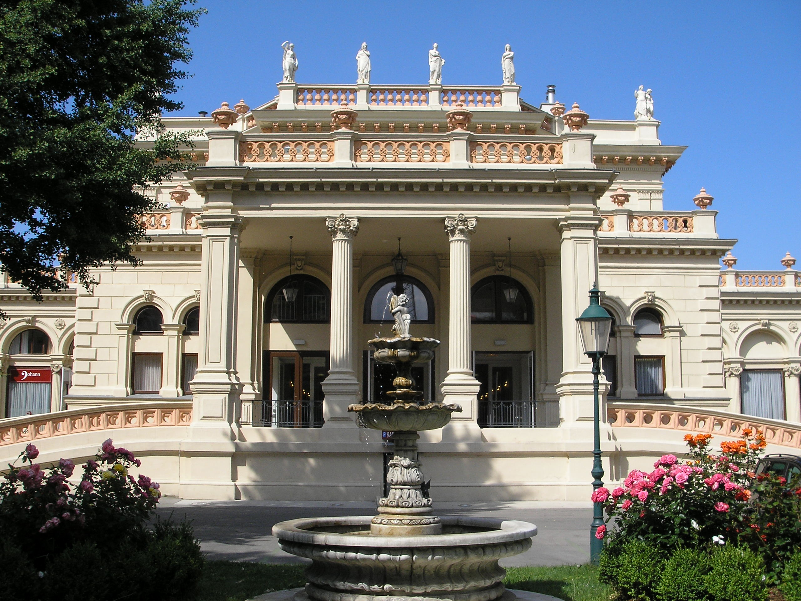 The Kursalon in the Stadtpark, Vienna.